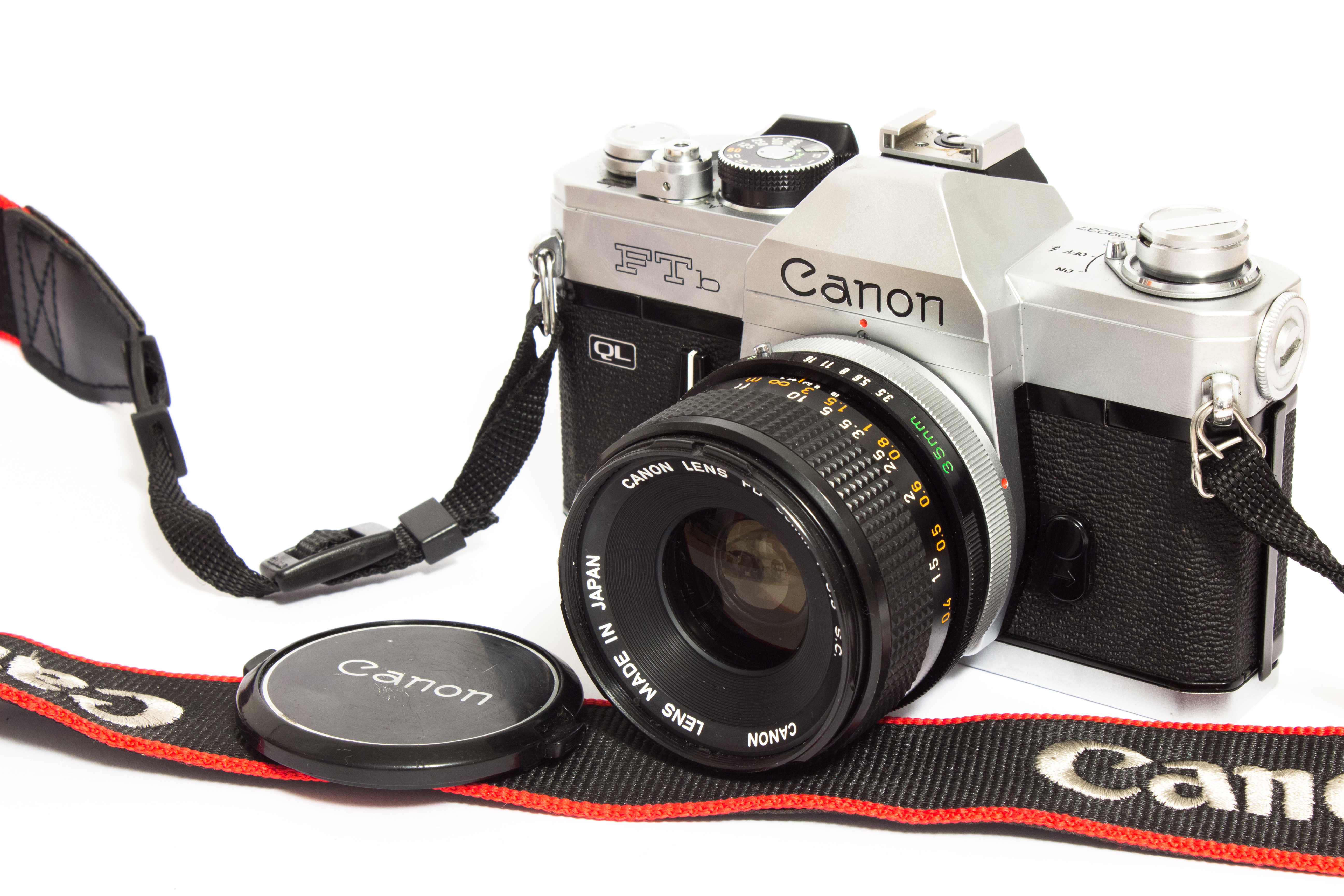 Home studio shot of the Canon FTb analog camera with a original Canon 50mm f1.8 lens.